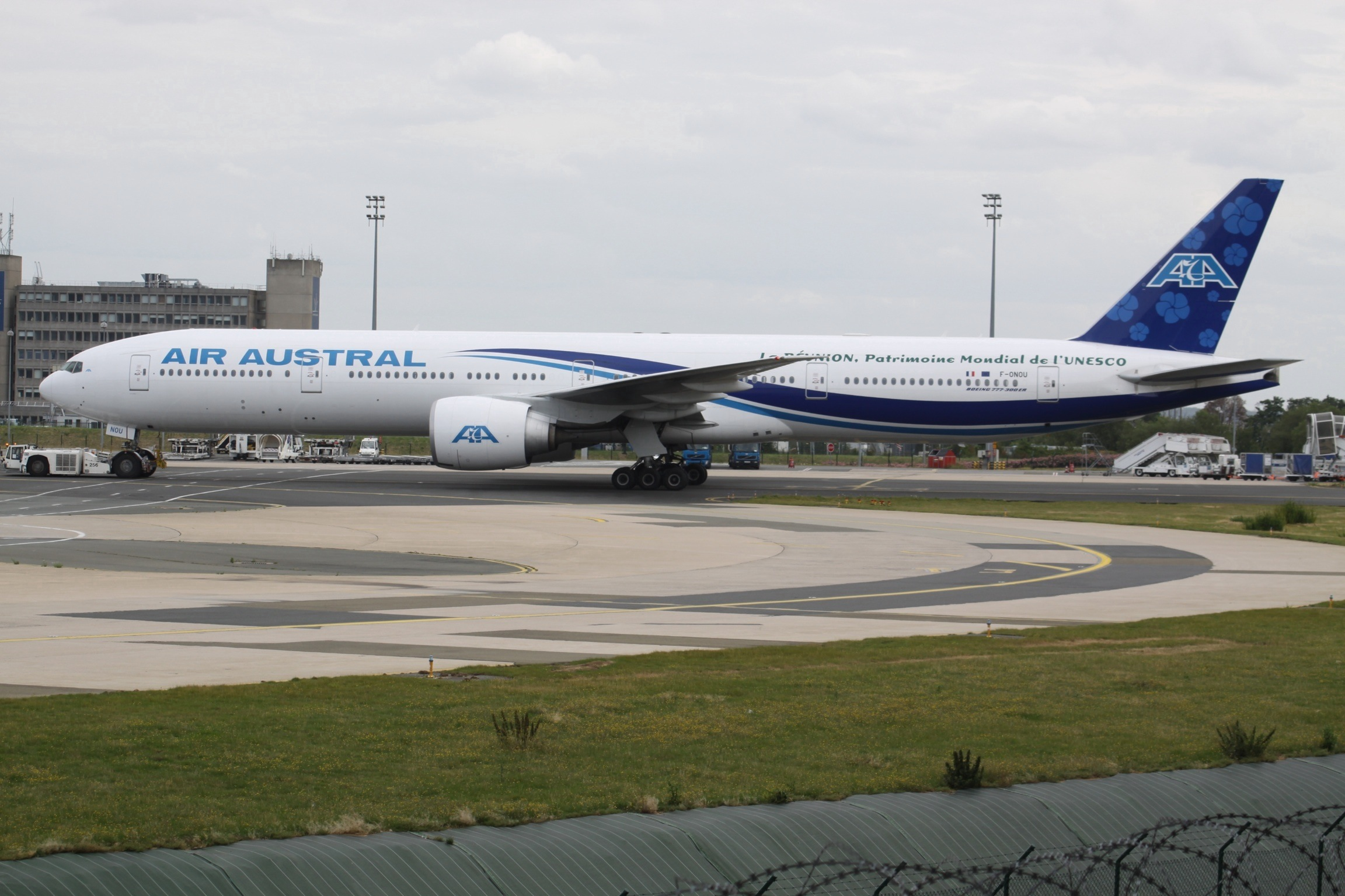 At Paris Charles De Gaulle